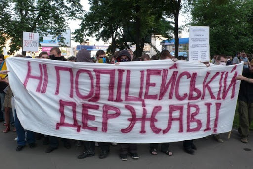 Banner with text in Ukrainian "No to police state". Protest action against police arbitrariness in Kyiv, Ukraine. The "No to police state" campaign.The right to use the photo: "You can reprint materials, published here, indicating a direct link to the website."